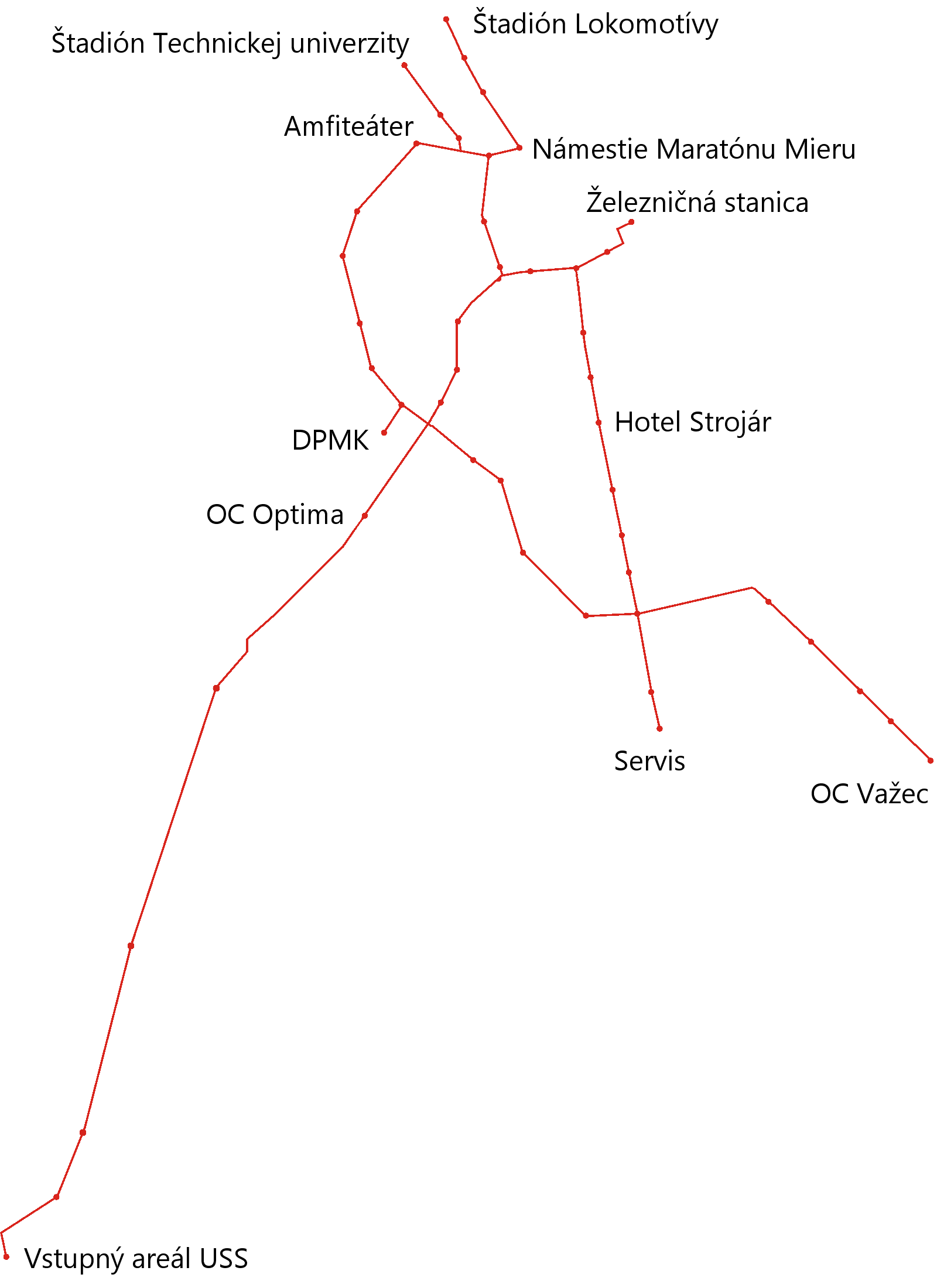 Košice tram bus map with description